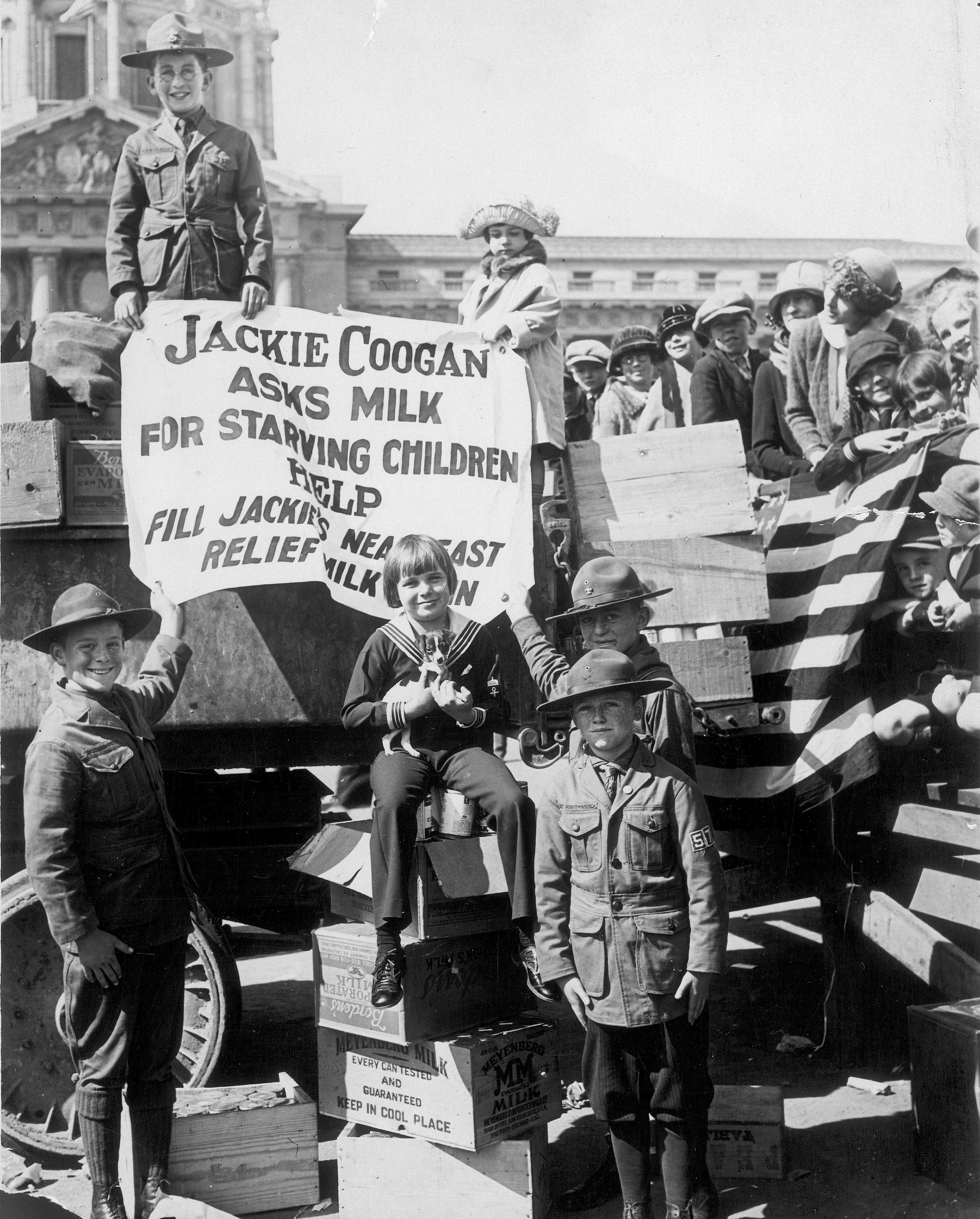 Jackie Coogan. The Boy Scouts and child actor Jackie Coogan helped fill a «million-dollar milk ship» for Near East Relief in August 1924. During the campaign, the admission price to any Jackie Coogan movie was a can of milk.